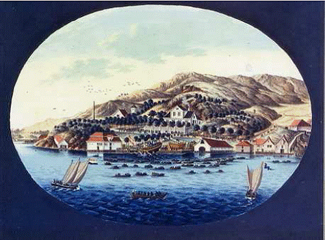 Launch of a boat from Elsero - a small yard in Bergen, Norway.